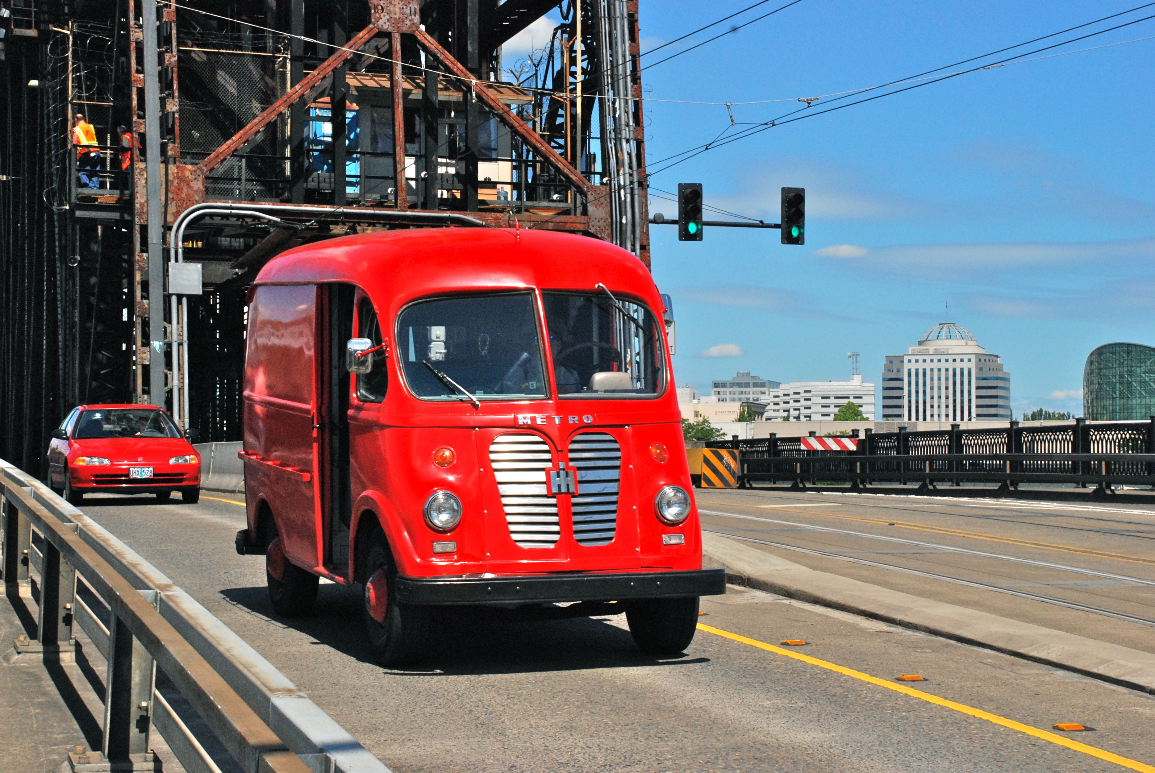 A preserved and restored 1958 International Harvester Metro Van crossing the Steel Bridge, in Portland, Oregon.